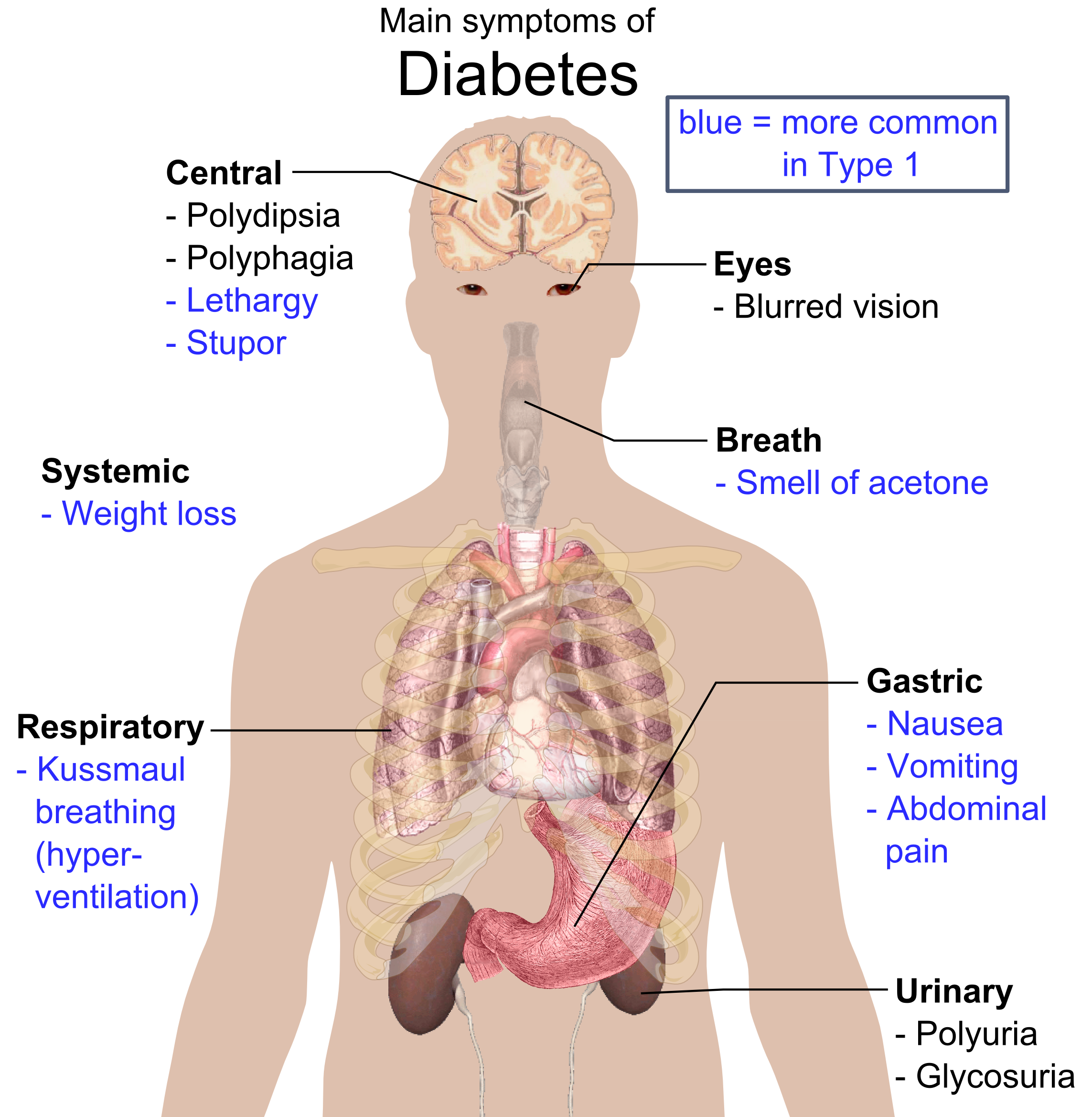 Overview of the most significant possible symptoms of diabetes. See Wikipedia:Diabetes#Signs_and_symptoms for references. To discuss image, please see Template talk:Human body diagrams